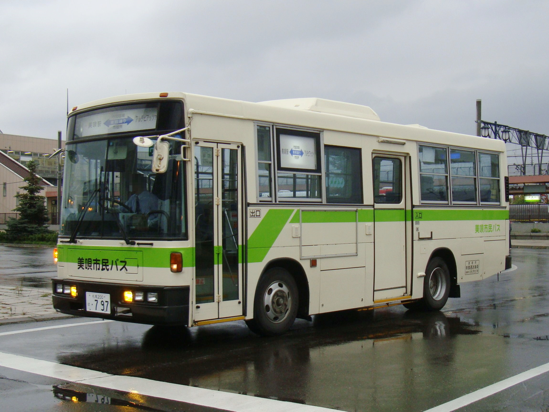 Bibai city line